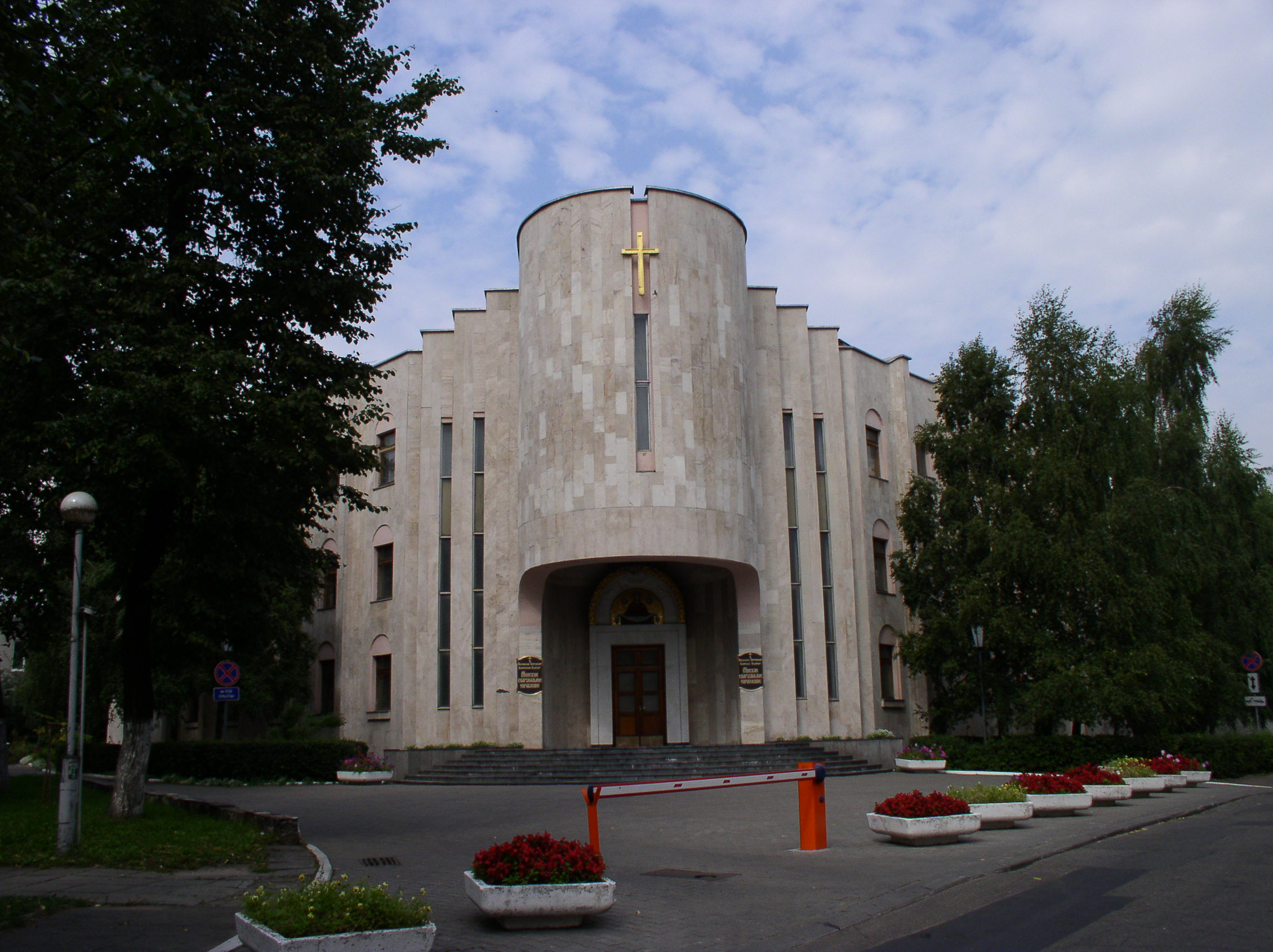 Orthodox church Minsk diocesan administration. Minsk, Belarus.